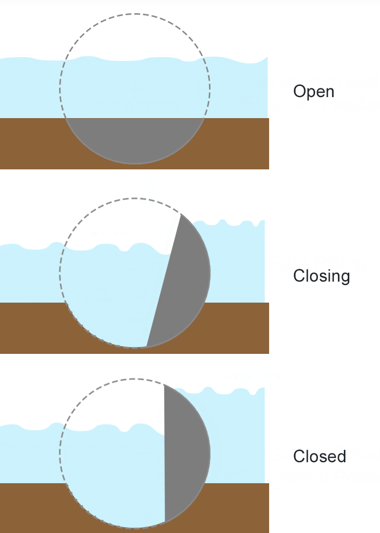 A very simple diagram of how the Thames Barrier works based information found at: trolleymusic (talk) 15:19, 9 June 2012 (UTC)